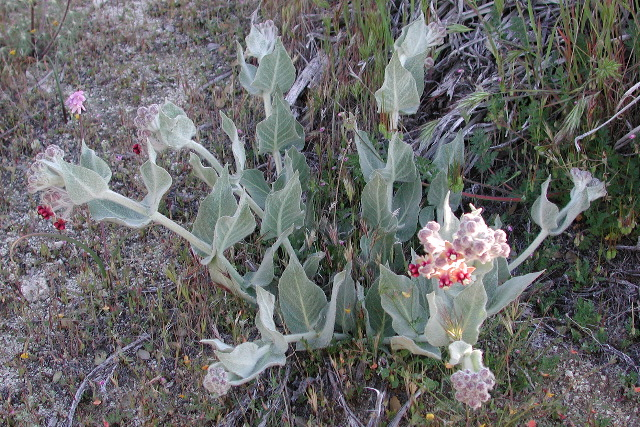 Asclepias californica